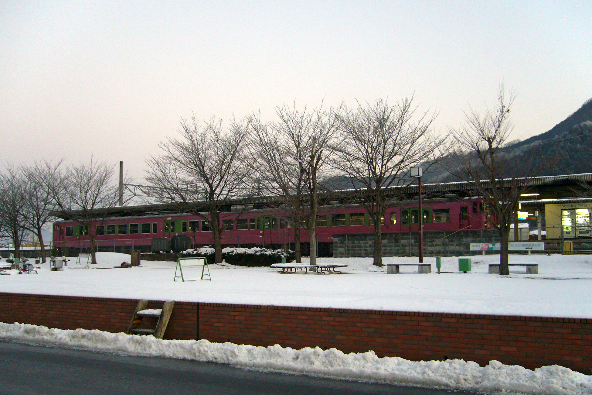 Wadayama Station in Asago, Hyogo prefecture, Japan